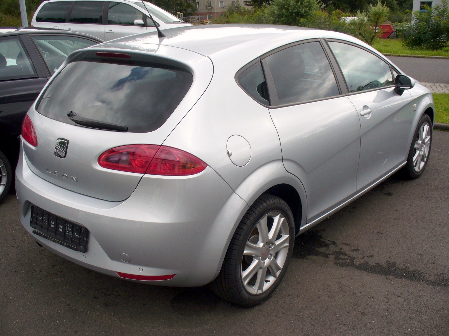 Seat Leon